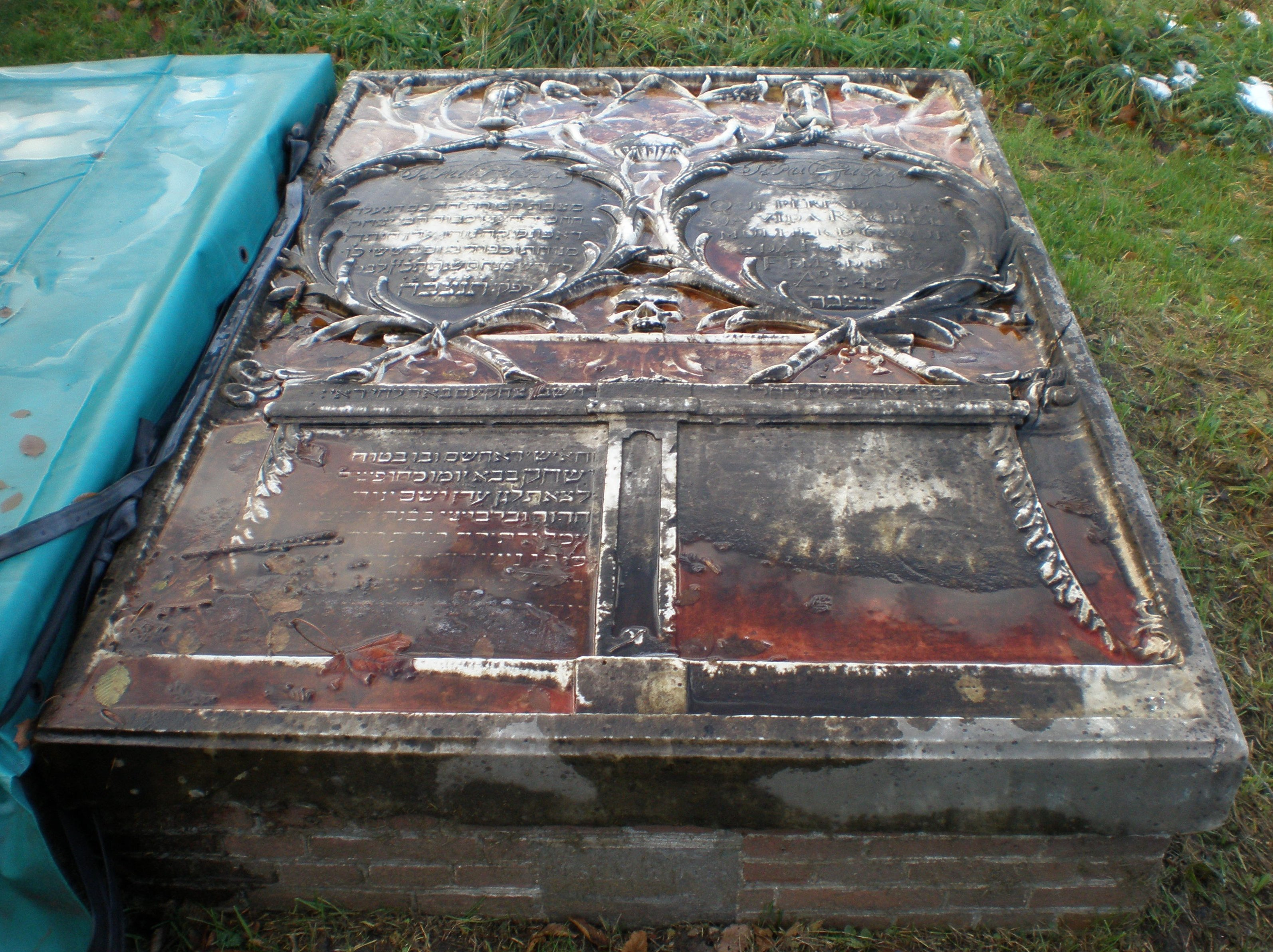 Headstone at the Jewish cemetery Beth Haim in Ouderkerk aan de Amstel.